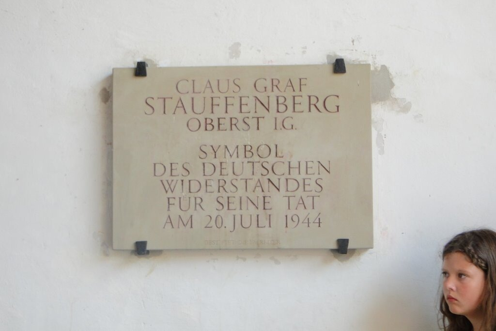 Plaque commemorating Stauffenberg in Bamberg